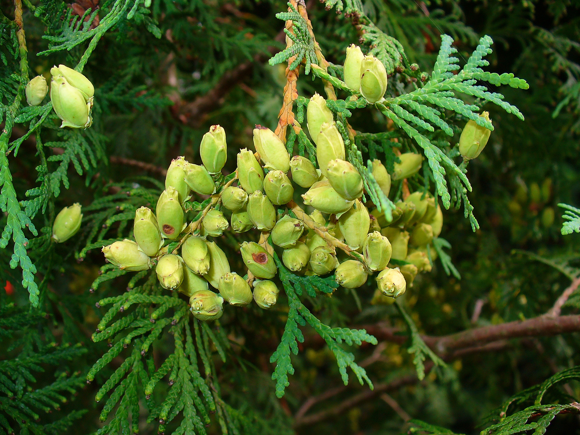 Thuja occidentalis, Cupressaceae, Eastern Arborvitae, Northern Whitecedar, cones. Karlsruhe, Germany.